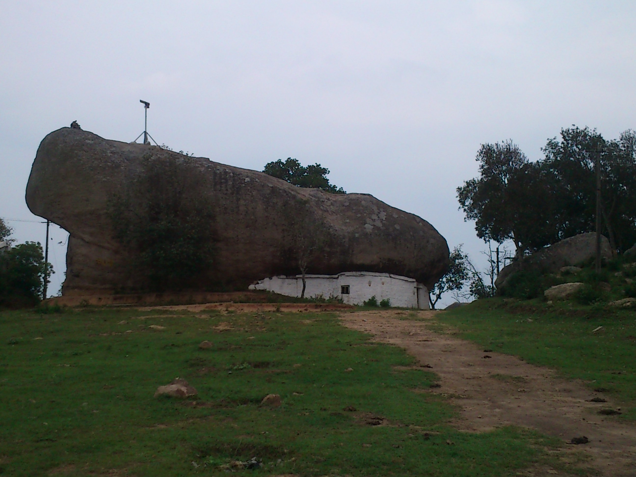 Temple on the top of Bilikal Rangaswamy Hill